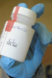 Master Sgt. Urbano Sosa demonstrates the job of an observer for a UPL collection exercise. As observer, maintaining a direct line of sight with a specimen bottle at all time helps to ensure a proper chain of custody and prevents tampering or altering of a specimen.